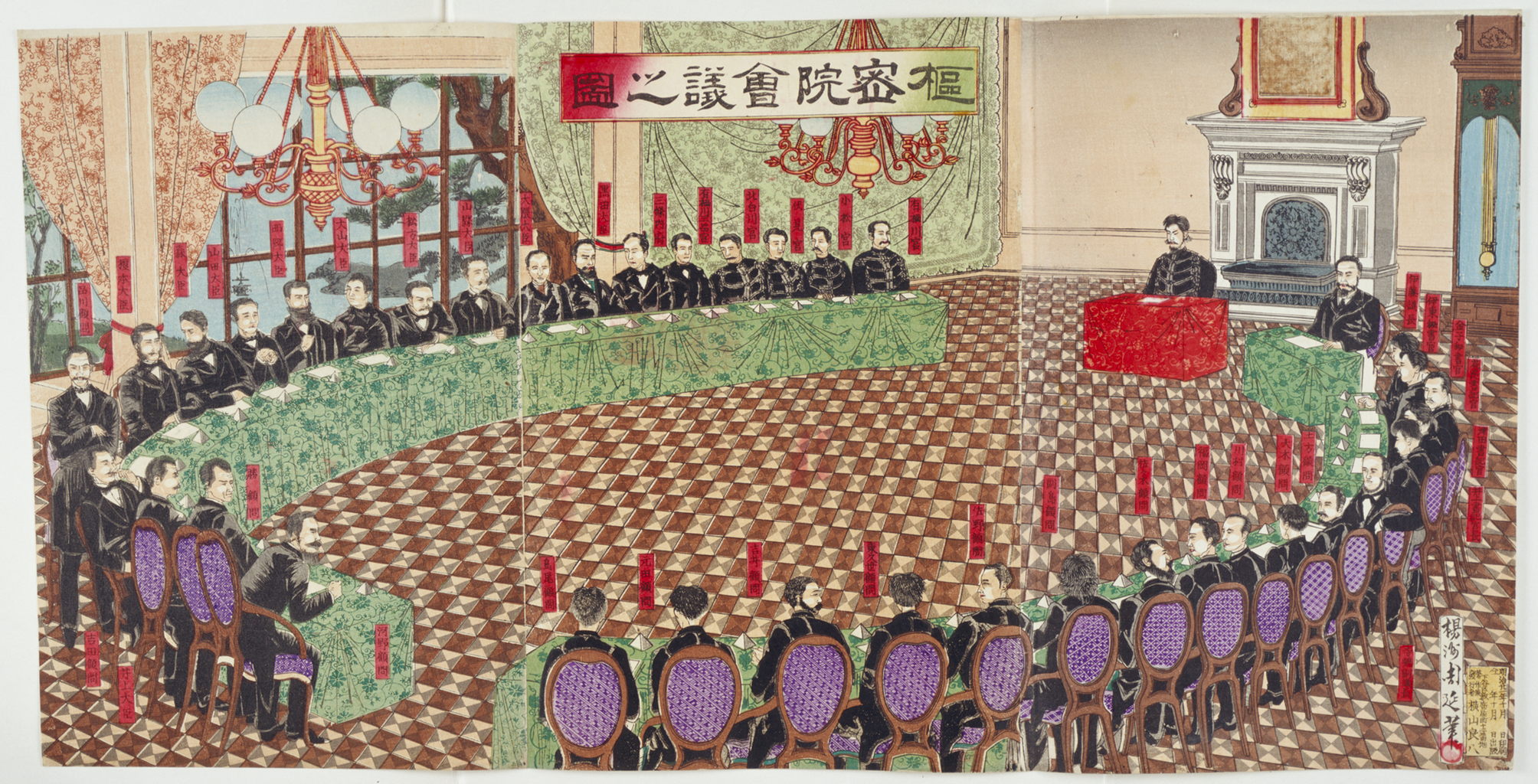 A meeting of the Japanese Privy Council